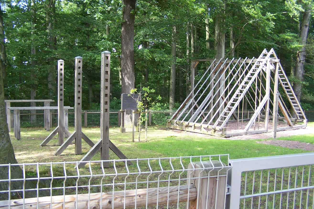 The first Turnplatz in Germany (rekonstruktion) in Schnepfenthal.